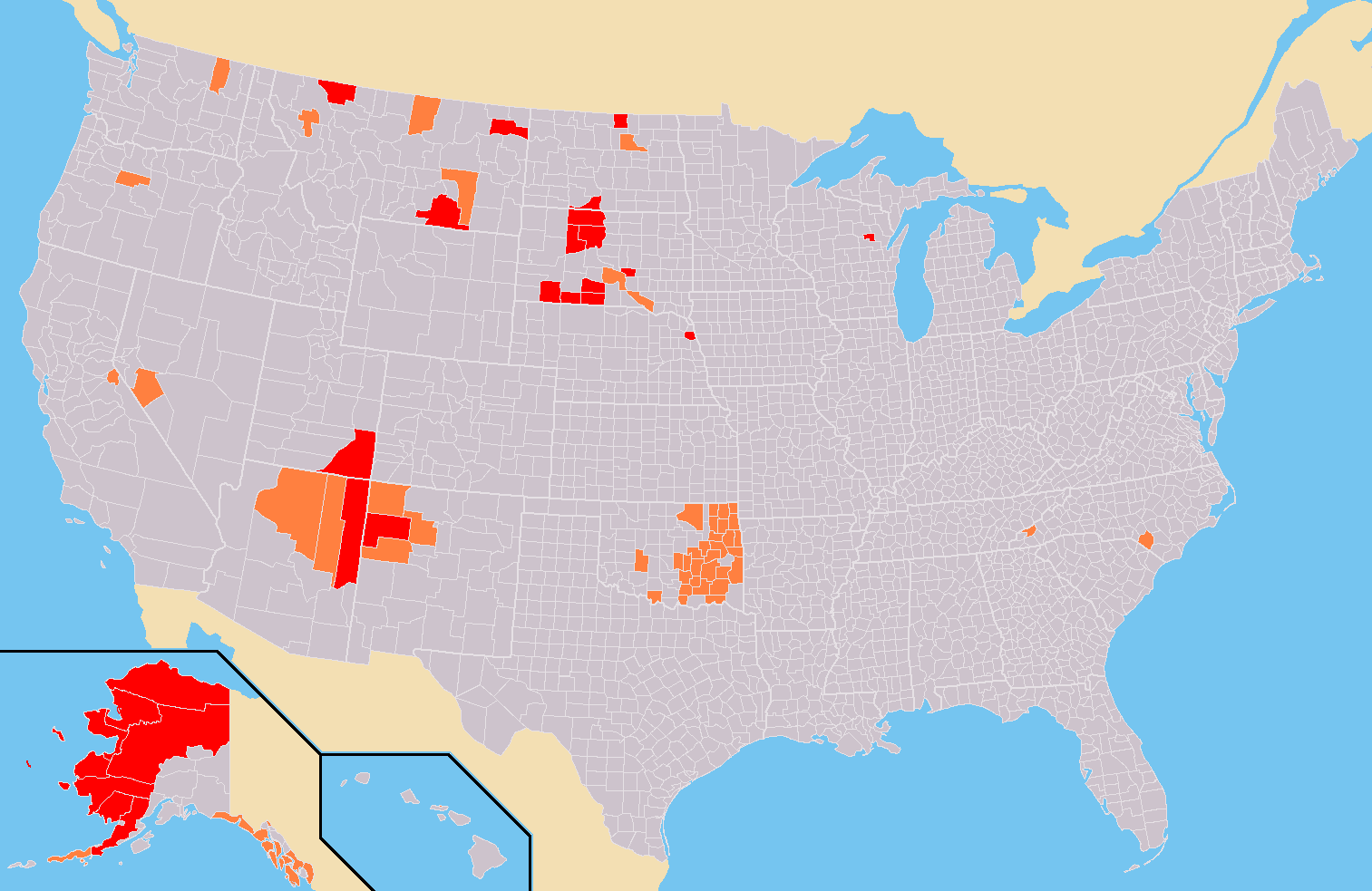 Map_of_USA_with_county_outlines, by native american majority or plurality